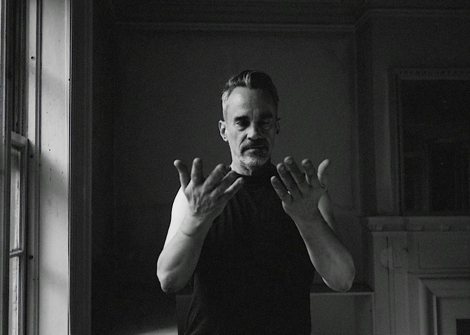 Douglas Ferguson in his studio (self portrait)